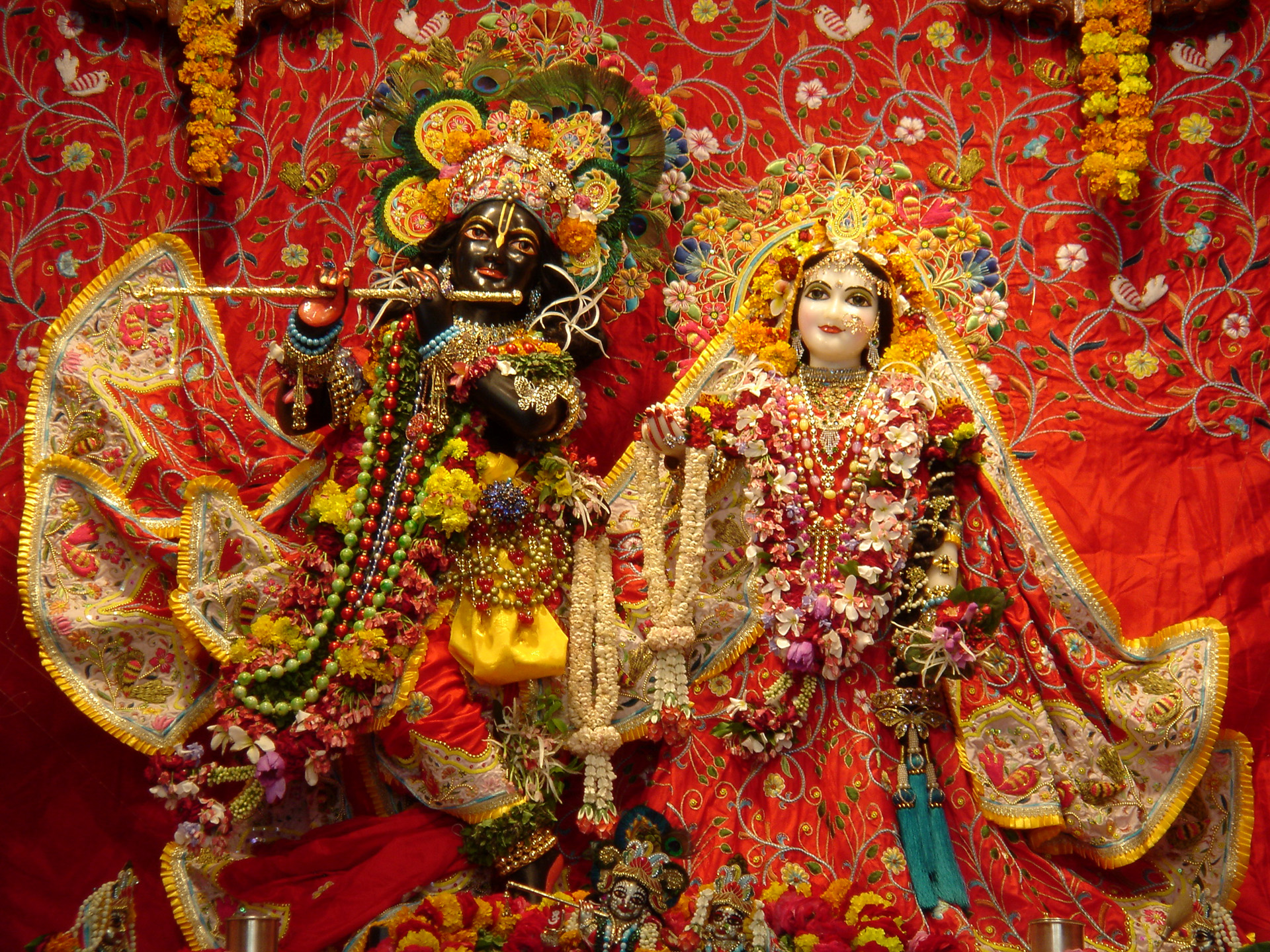 Radha Syamasundar are beautifully decorated deities of Krishna and Radharani taken on Radhastami at the Krishna Balaram mandir in Vrindavan UP India in 2004